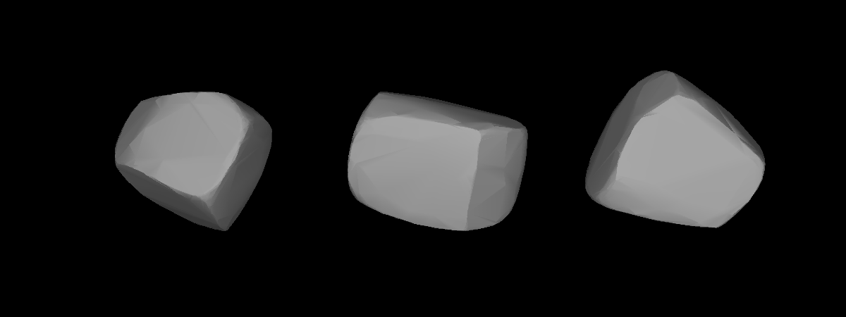 A three-dimensional model of 920 Rogeria that was computed using light curve inversion techniques.